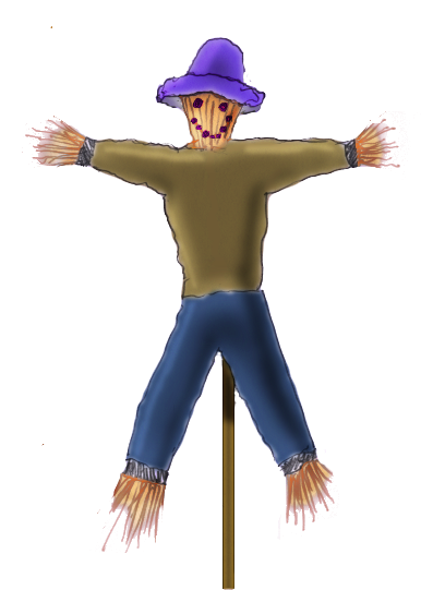 Abstract political strawman (as opposed to real reality strawman)